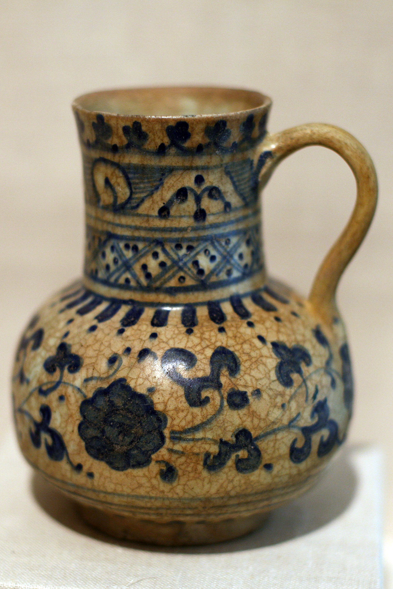 Jug, 15th century. Ceramic, off-white body, cobalt blue underglaze, transparent colorless glaze. Brooklyn Museum, Anonymous gift in honor of Elizabeth Riefstahl, 74.24. Wikipedia Loves Art at the Brooklyn Museum This photo of item # [1] at the Brooklyn Museum was contributed under the team name "shooting_brooklyn" as part of the Wikipedia Loves Art project in February 2009. Brooklyn Museum The original photograph on Flickr was taken by shooting brooklyn—please add a comment to the original Flickr page whenever a use has been made on Wikipedia or another project. Project galleries on Flickr: this institution, this team